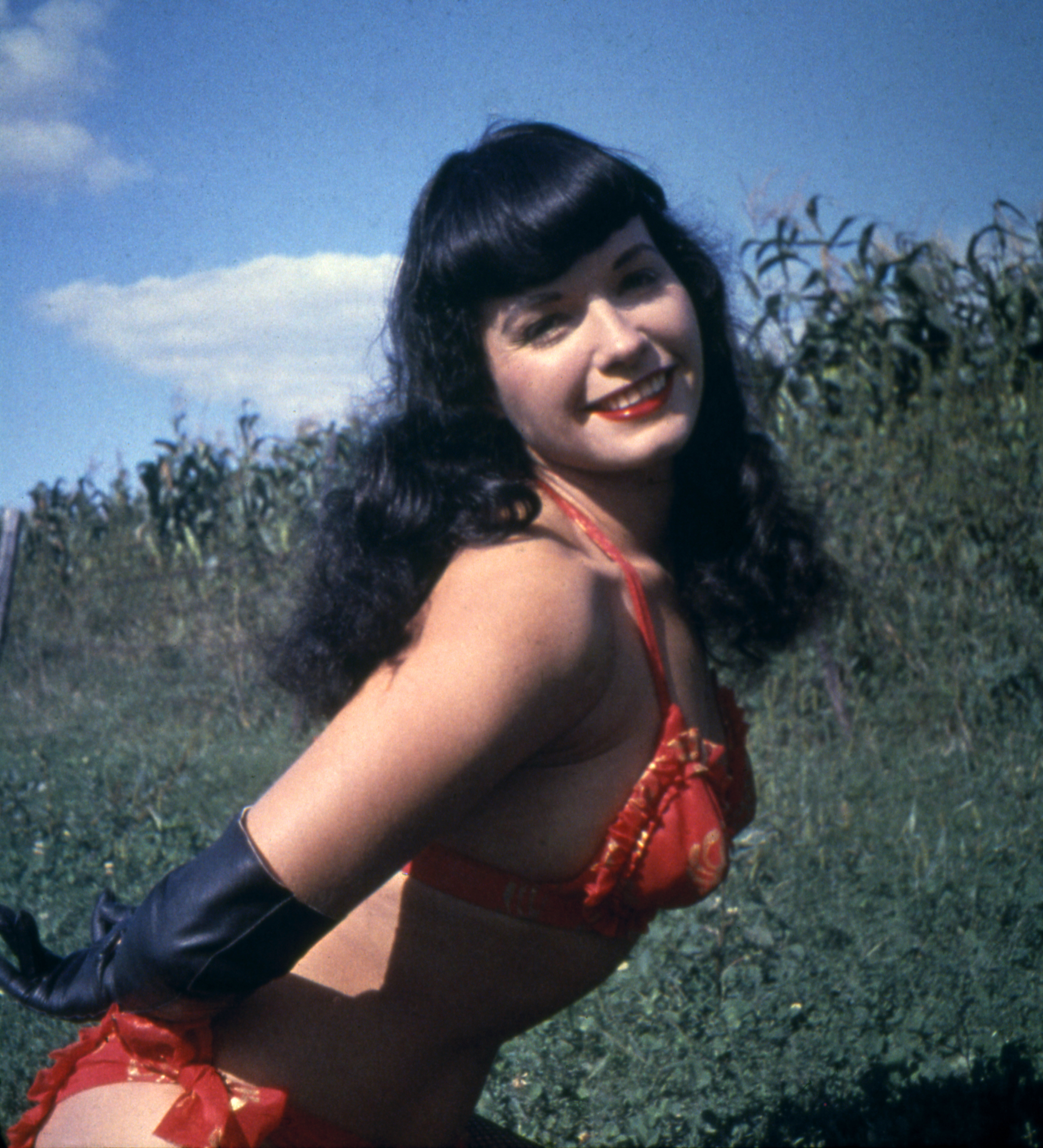 Bettie Page TM is a Trademark of Bettie Page LLC Licensed by CMG Worldwide, Inc. Photo released by CMG Worldwide for its free use (as shown in permission below)